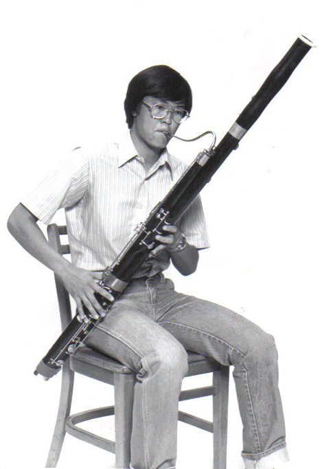 Photograph of a male bassoon player.